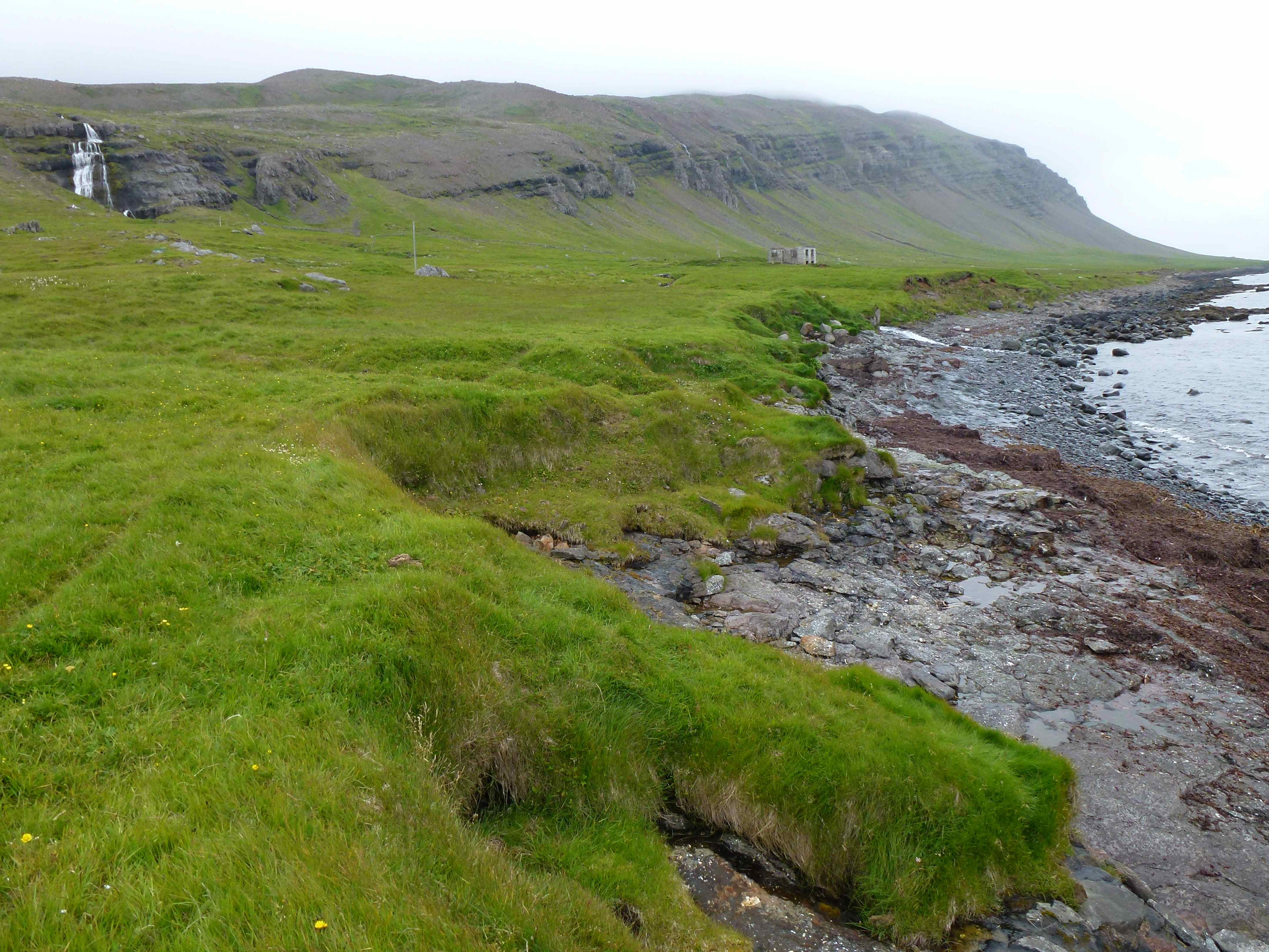 Karlsskáli Júlí 2014